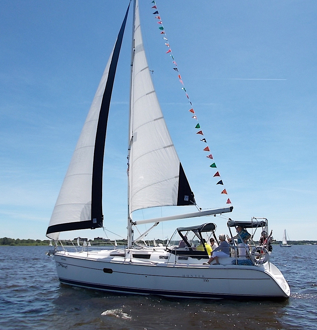 Hunter 356 Osprey on Lac Deschênes, part of the Ottawa River, Ottawa, Ontario, Canada